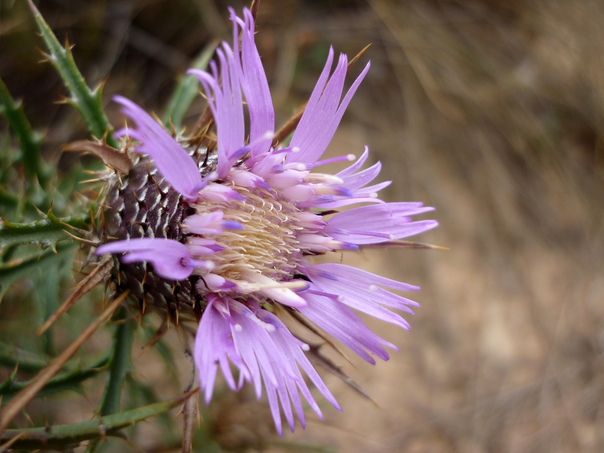 Atractylis humilis. In Torà (Segarra-Catalunya). To 580 m. altitude